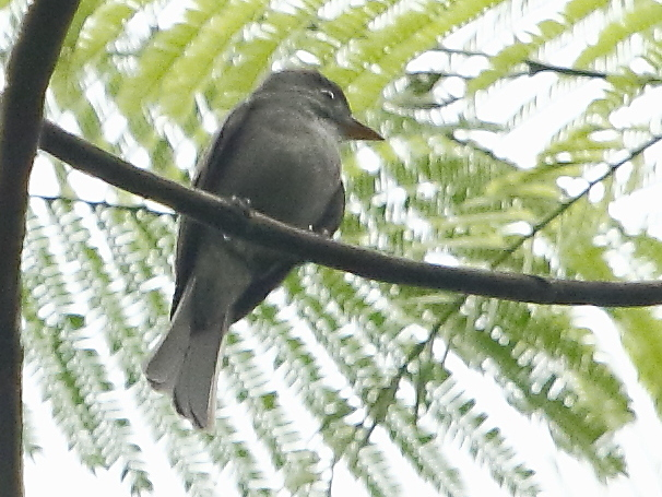 Blackish pewee at Carajás National Forest - Pará - Brazil